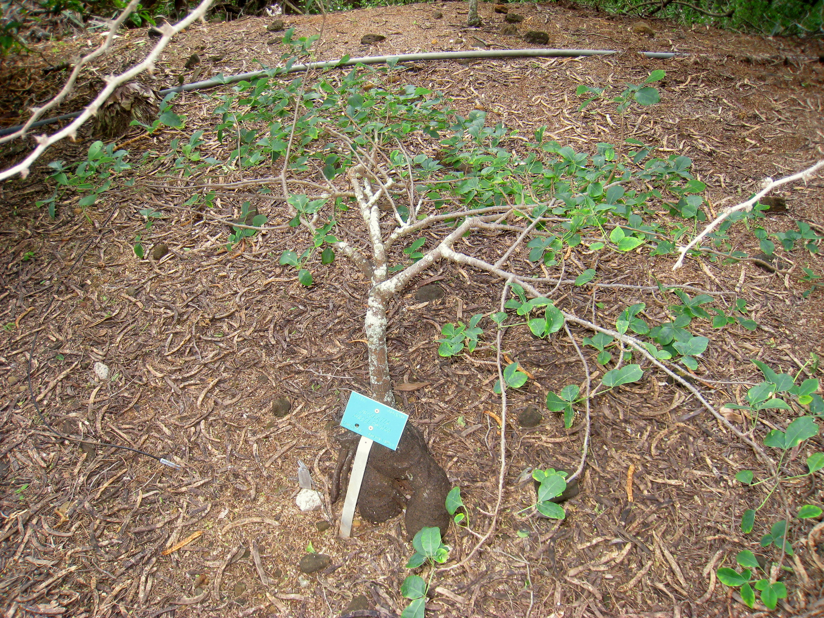 Acalypha hassleriana in the Koko Crater Botanical Garden, Honolulu, Hawaii, USA.